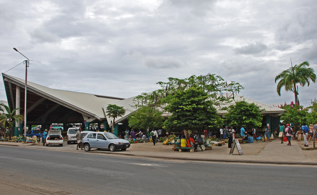 Port Vila's Central Market.